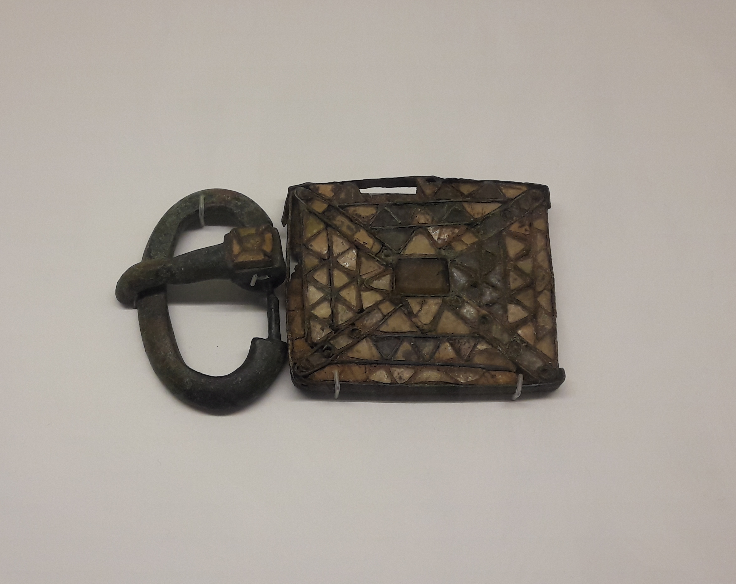 Belt plate and buckle. Cast bronze and iron decorated with cloisonné vitreous paste. 5th-7th centuries. From the Visighotic necropolis of Castilitierra, Segovia. Museo de Málaga, Spain.